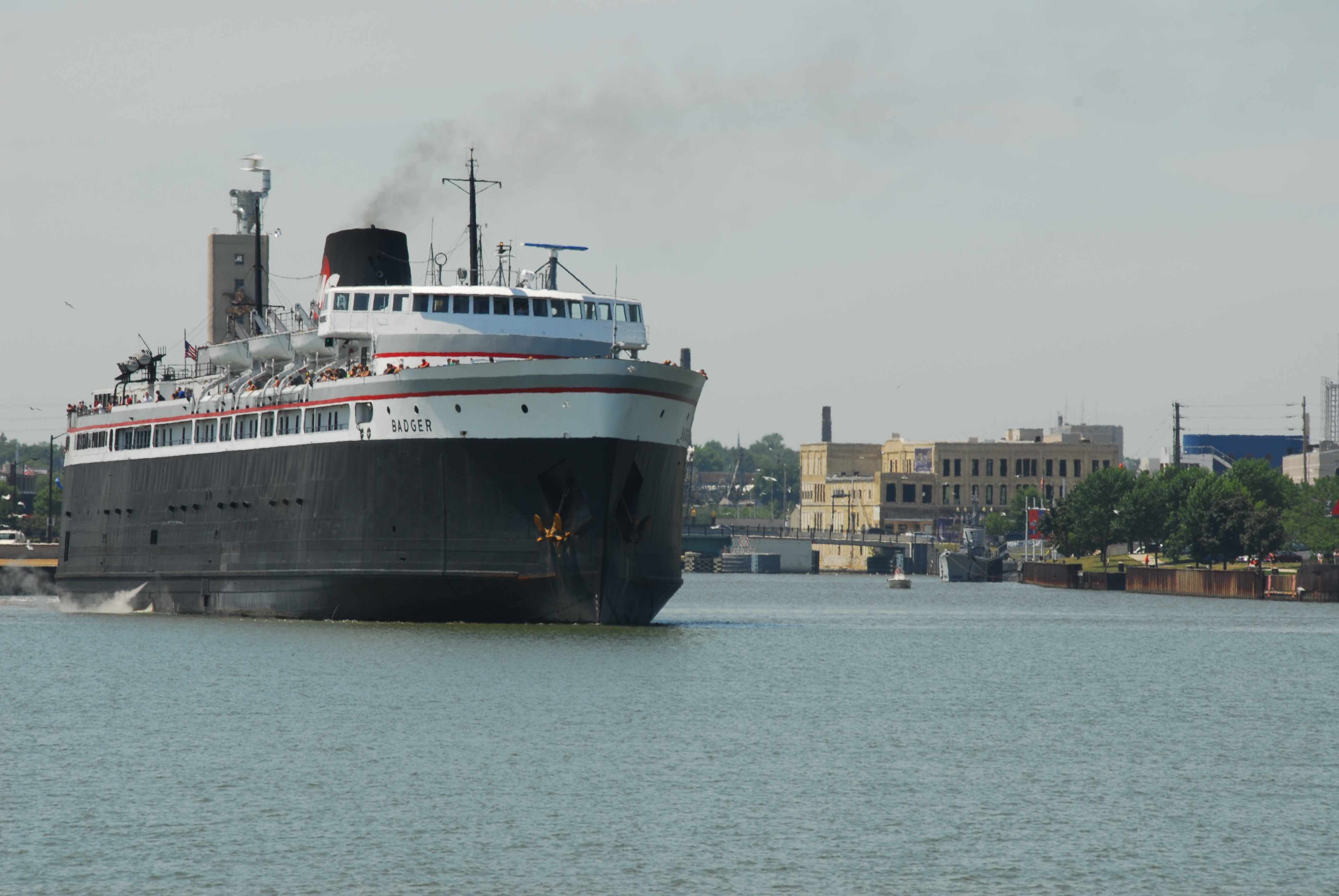 SS Badger getting underway from its western port.